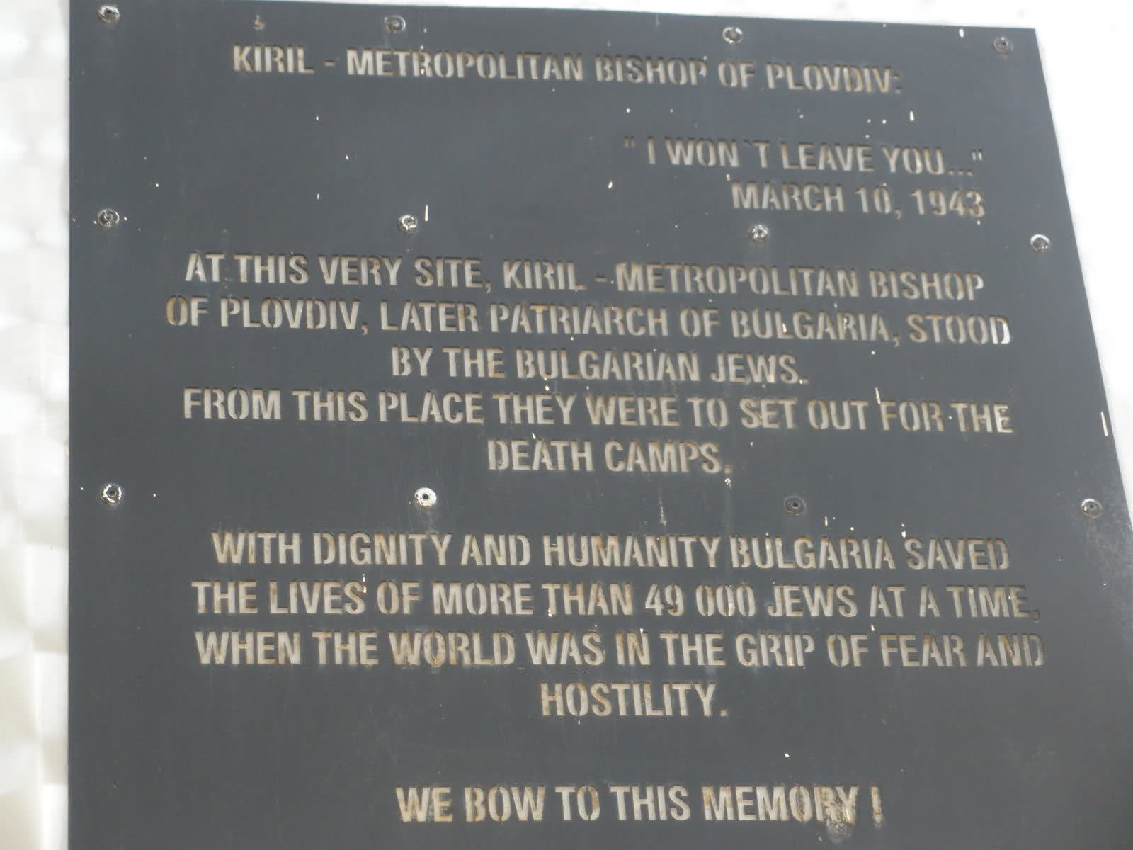 Cyril of Bulgaria memorial sign in Plovdiv. Credit: Courtesy of Yossi Nevo .